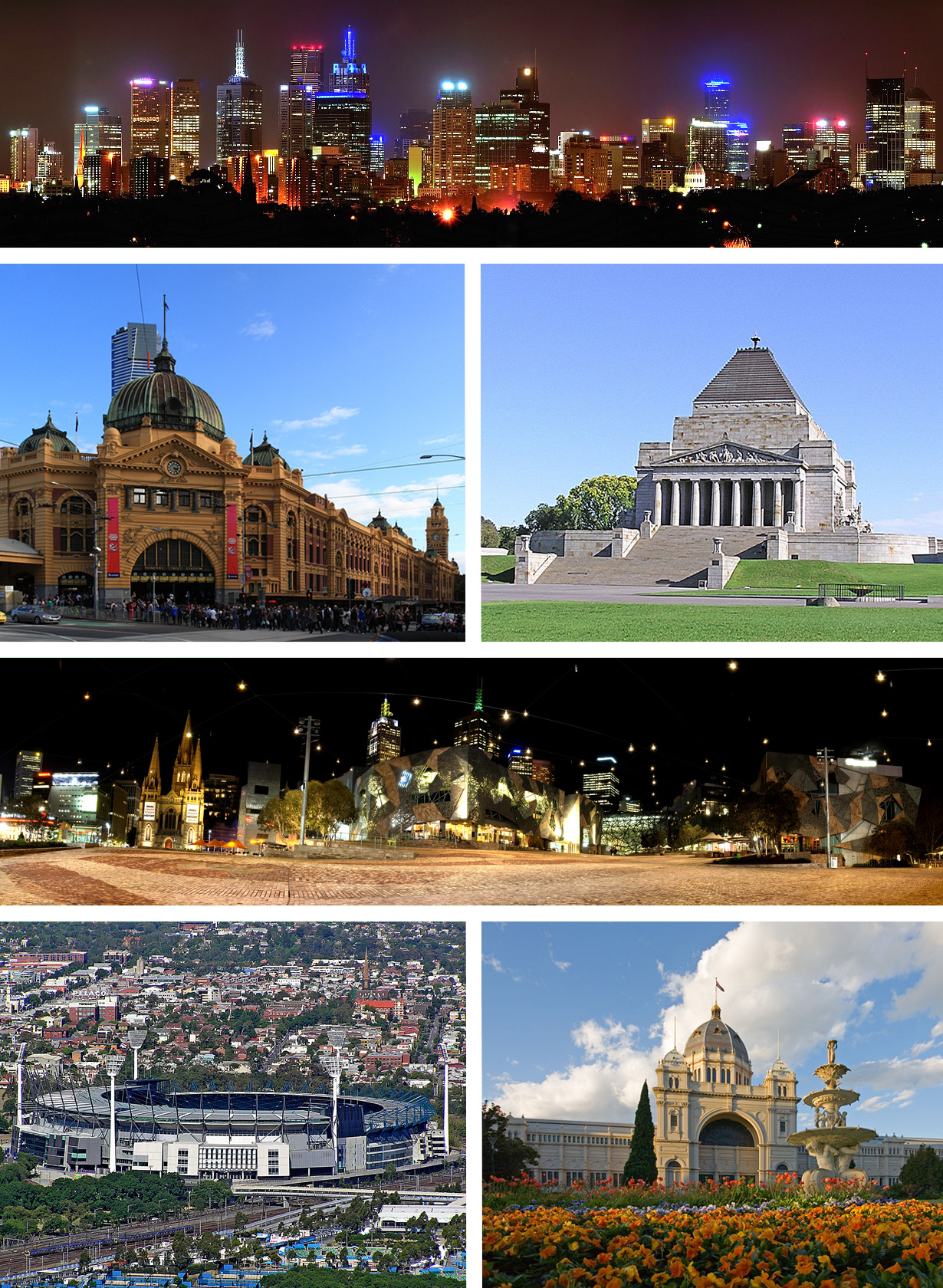 Another alternative six frame montage of Melbourne. Images from top, left to right: Melbourne night skyline from File:Melbourne_Night_Panorama.jpg Author, Jes Flinders Street Station from File:Flinders_street_train_station_melbourne.jpg Author, Adam.J.W.C. Shrine of Rememberance from File:Shrine_of_Remembrance_1.jpg Author, Donaldytong Federation Square from File:FederationSquare-panorama.jpgAuthor, Vincent Quach (Invincible) Melbourne Cricket Ground from File:MCG_(Melbourne_Cricket_Ground).jpg Author, Donaldytong Royal Exhibition Building from File:Royal_exhibition_building_tulips_straight.jpg Author, Photograph taken by Diliff and straightened by Ikiwaner